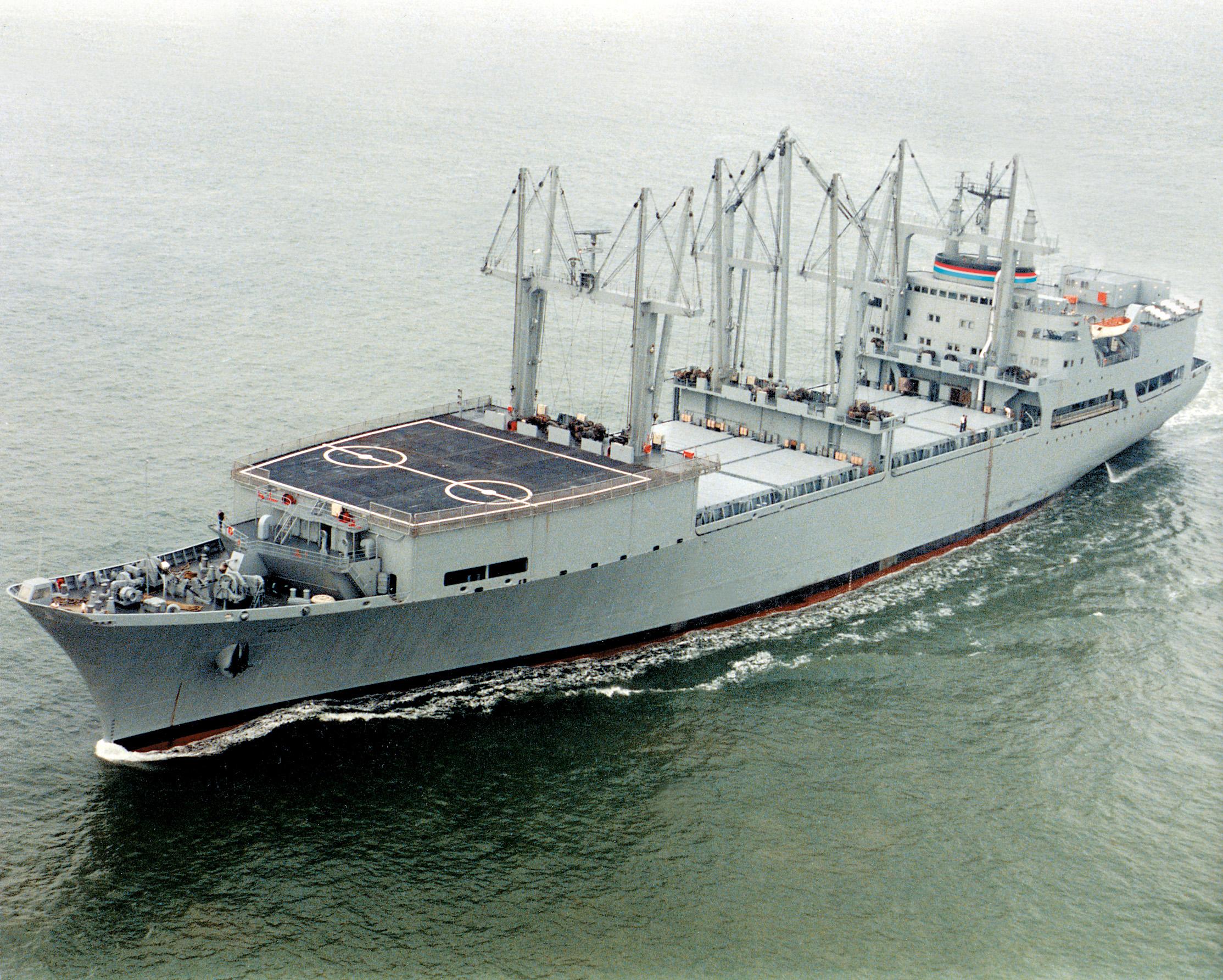 The U.S. Military Sealift Command aviation logistic ship SS Wright (T-AVB-3) underway at sea on 26 January 2007.